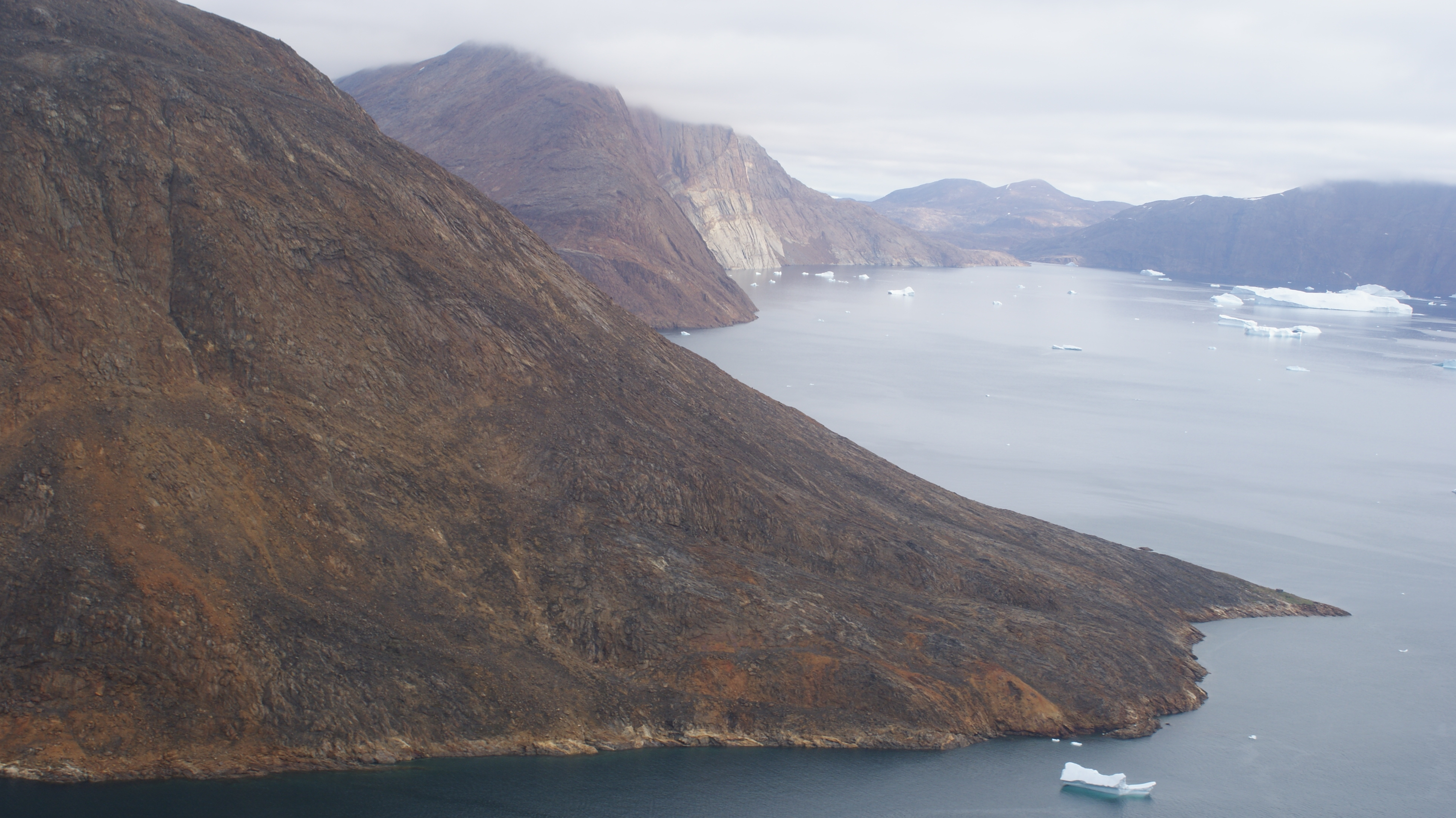 Aerial view of the Appaalissiorfik cape on Qullikorsuit Island, Upernavik Archipelago, Greenland. Photographed in poor visibility conditions from the Air Greenland Bell 212 helicopter during the Upernavik-Kullorsuaq flight.